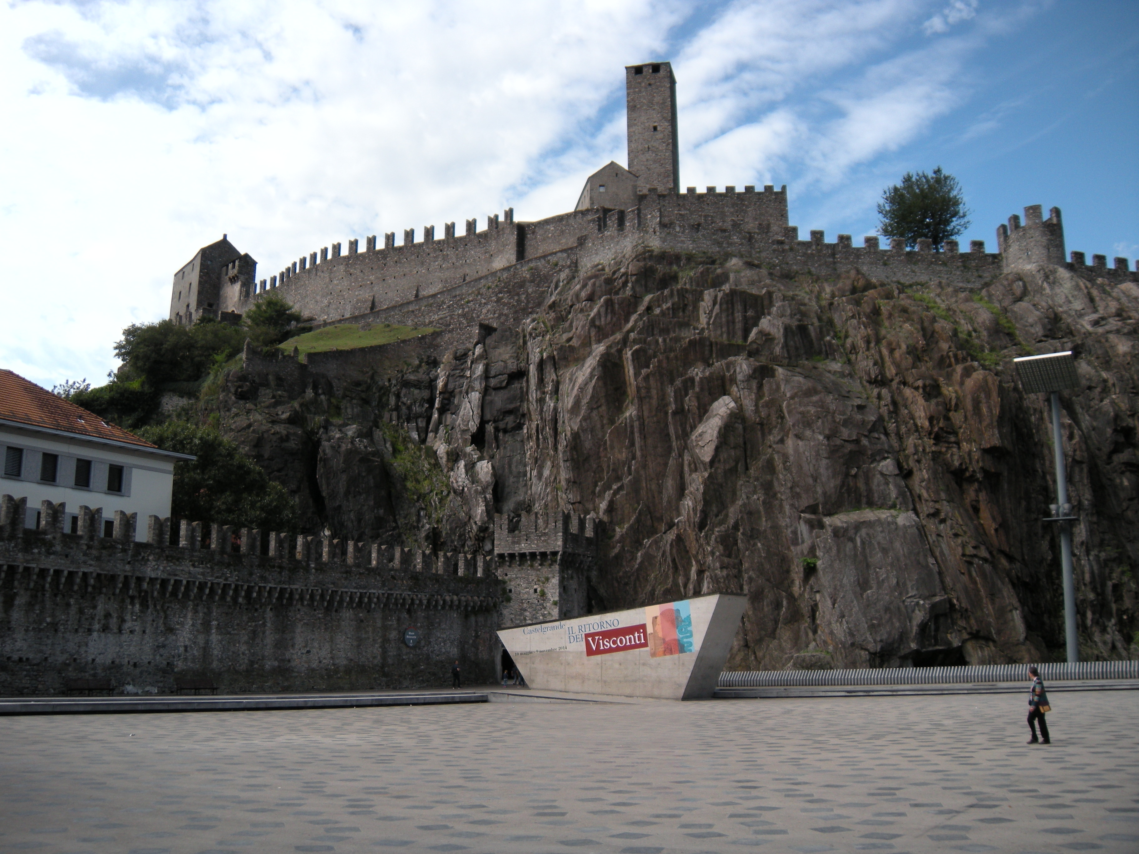 Museo di Castelgrande con collezioni archeologiche